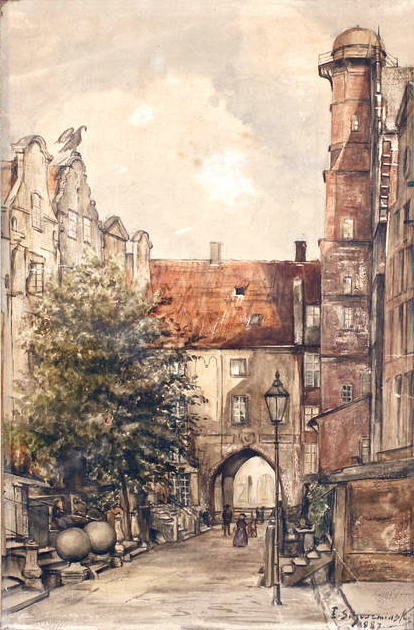 Painting by Jenny Schweminski: "Mariacka Street in Gdańsk" (Frauengasse), watercolour, 47.5 × 31.6 cm